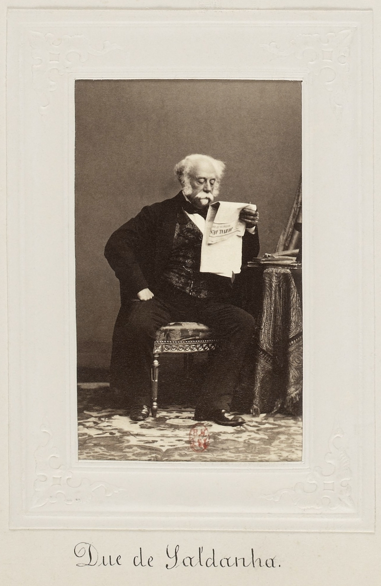 Marshal João Carlos Saldanha de Oliveira Daun, 1st Duke of Saldanha (1790-1876), portuguese statesman, several times minister, and four times Prime minister of Portugal during the 19th-century.